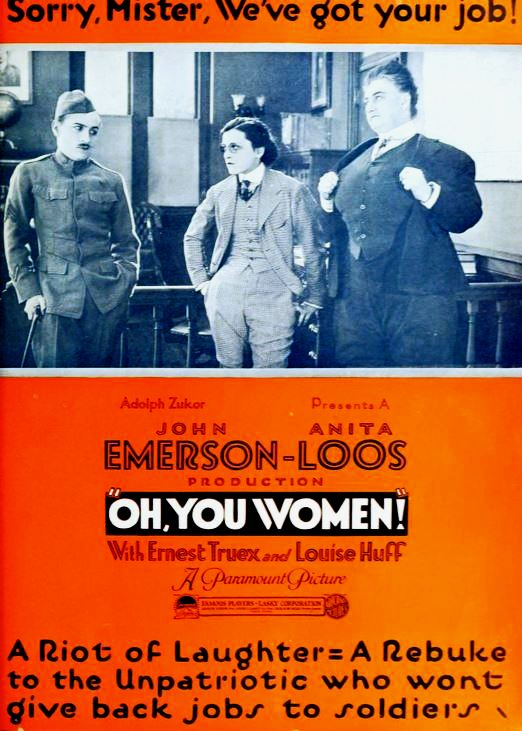 Ad for the American film Oh, You Women! (1919) with Ernest Truex and Louise Huff, color insert after page 602 of the May 3, 1919 Moving Picture World.